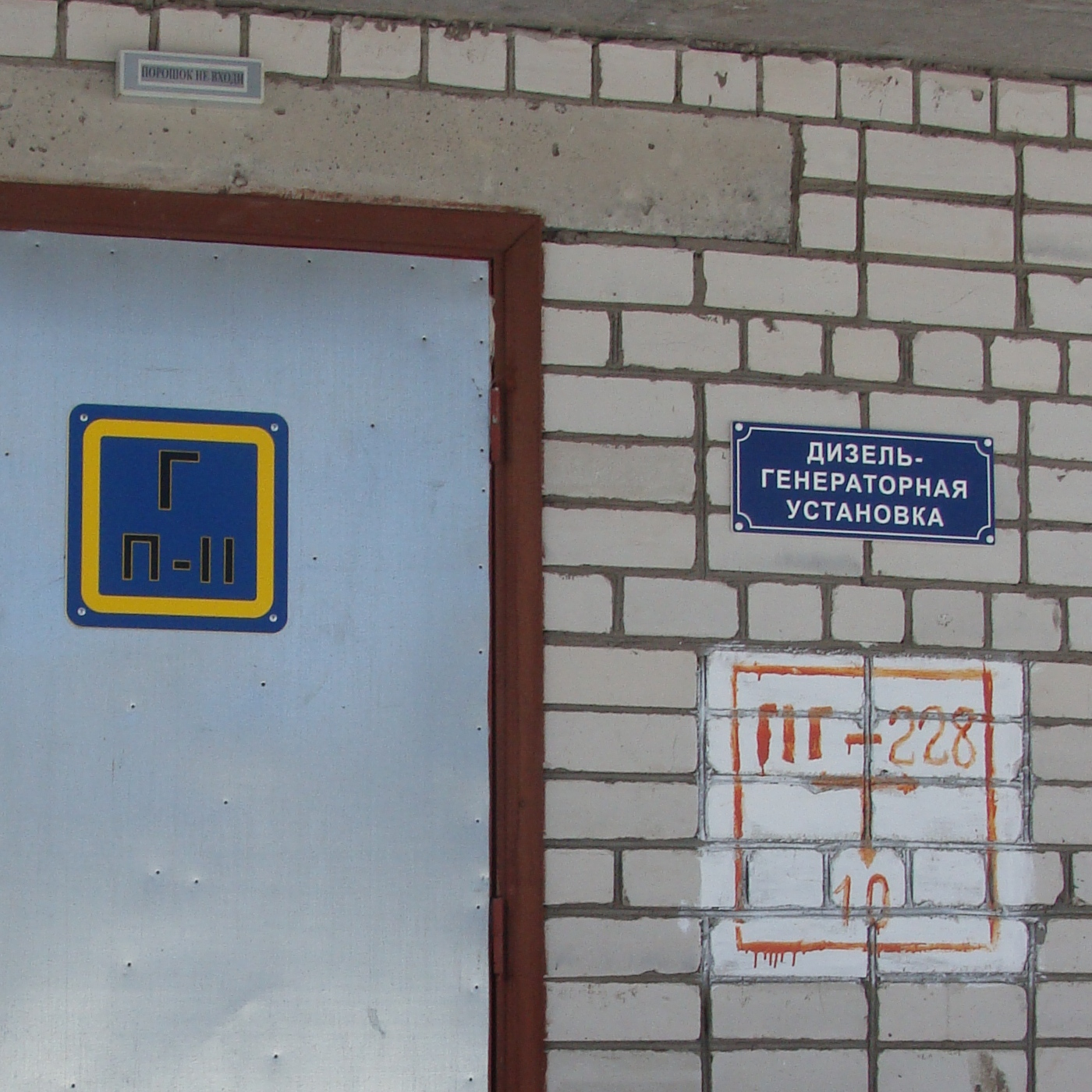 Diesel extinguishing powder storage